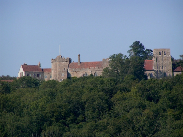 Lympne Castle From the valley below The castle sits atop what was once the cliffline of the original coast before the seabed was raised up to form the Romney Marsh.